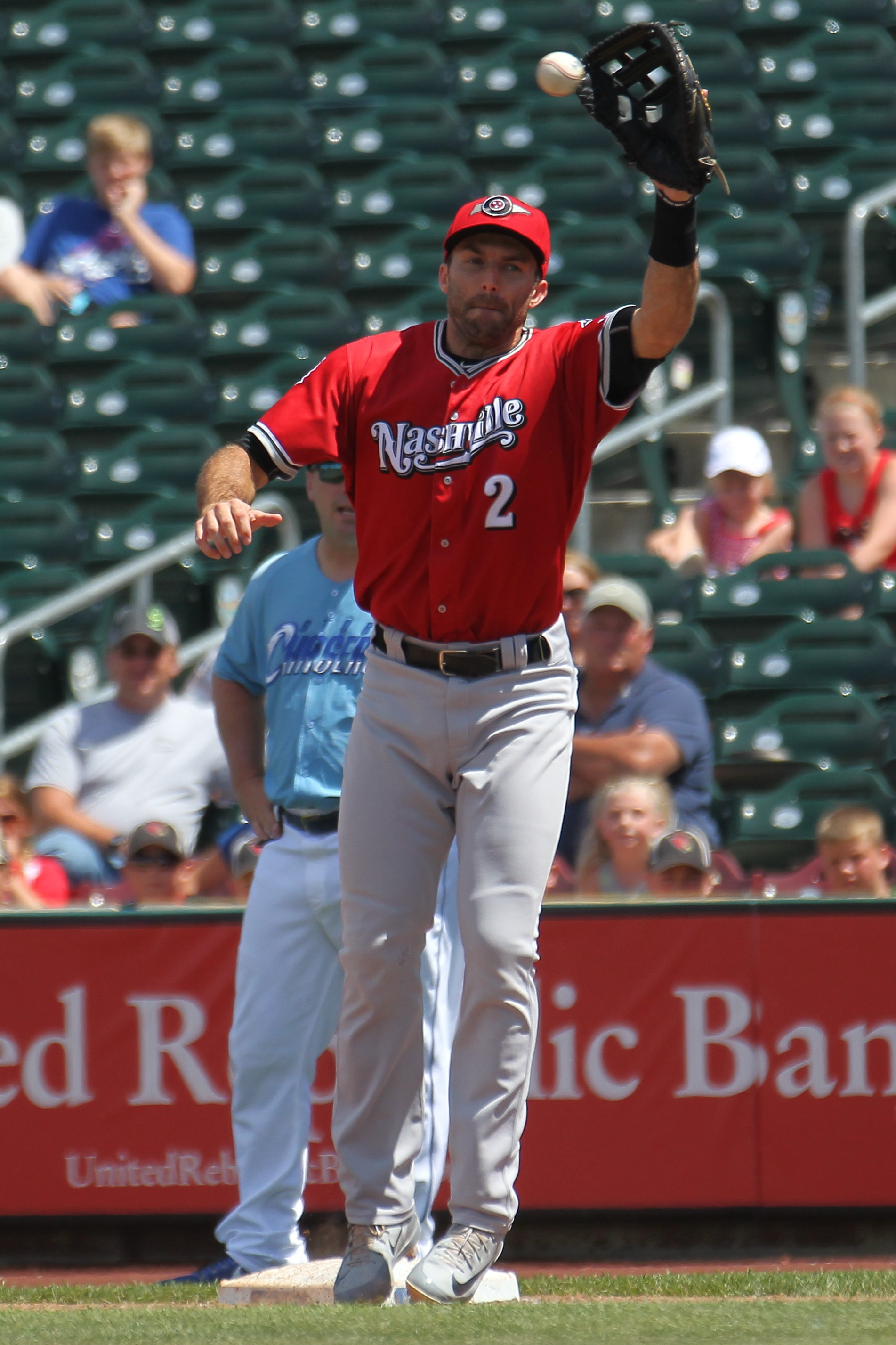 Steve Lombardozzi, Jr. of the Nashville Sounds Minda Haas Kuhlmann | 2018 USAGE INSTRUCTIONS: You are welcome to share or publish to your own site or social media account, but you MUST credit me, Minda Haas Kuhlmann. Twitter: @minda33. Instagram: minda.haas